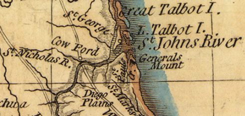 Excerpt of Northeast Florida from Bernard Romans' 1776 map of Florida